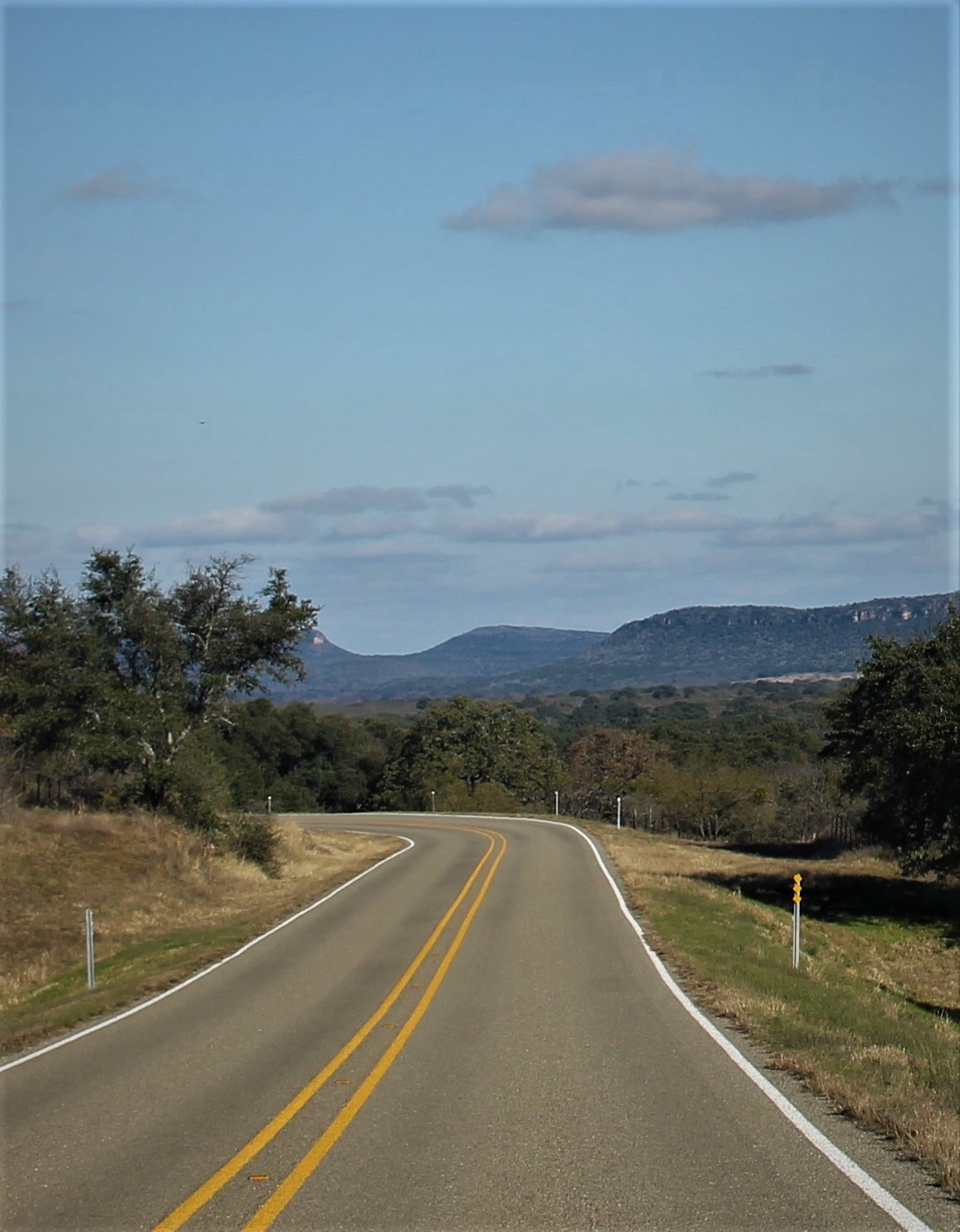 Texas Ranch-to-Market Road 965 skirts around Enchanted Rock.